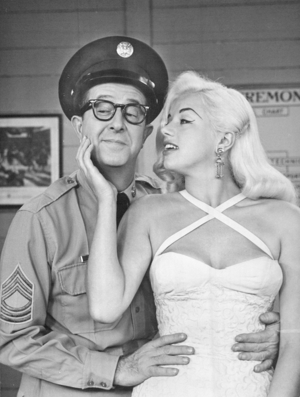 Photo of Phil Silvers and Diana Dors. Silvers played Ernie Bilko on this television special.